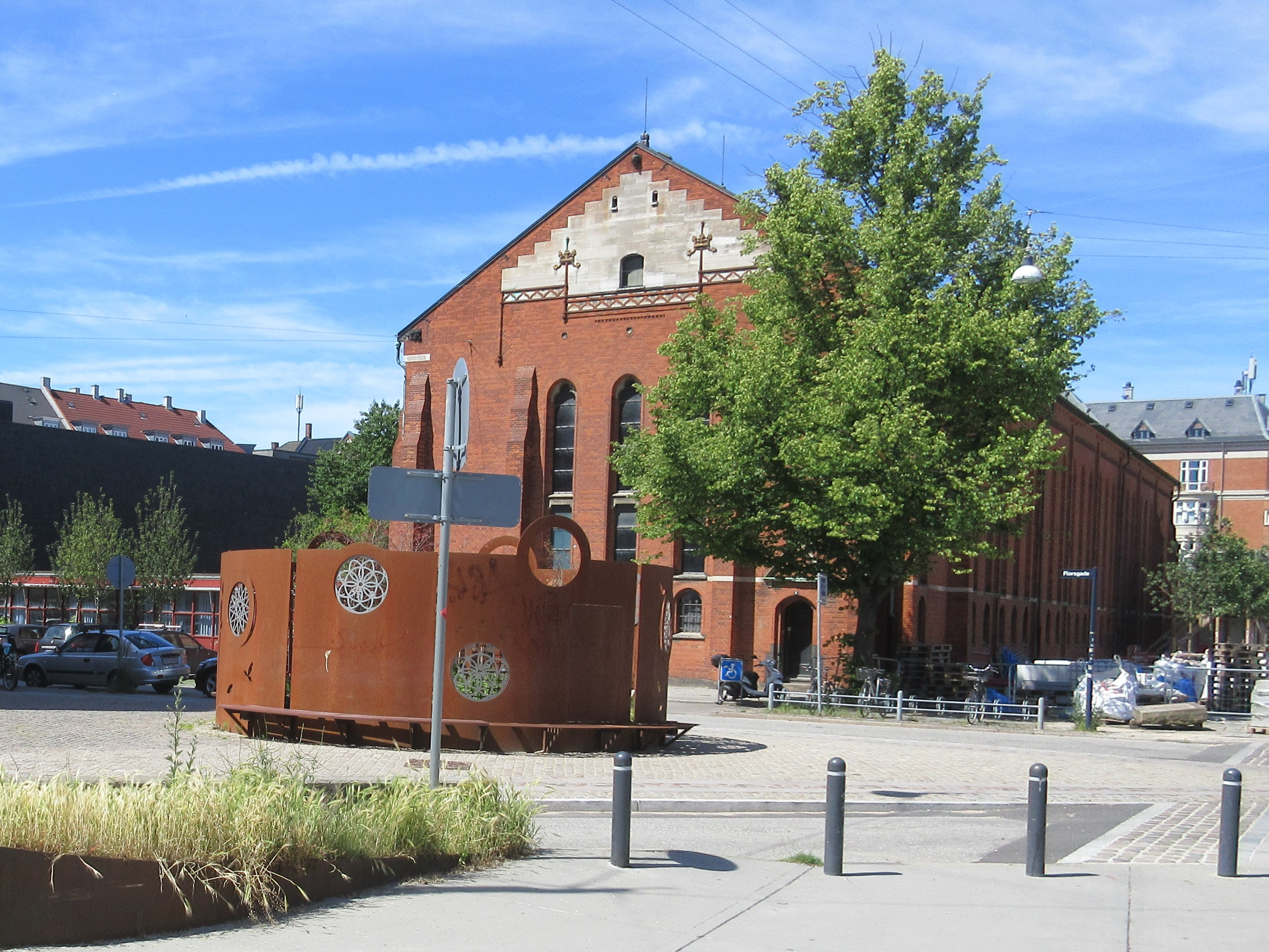 The gable of Landsarkivet as seen from Rantzausgade in Copenhagen, Denmark